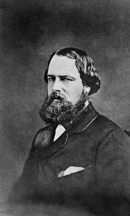 Portrait of The Honourable Sir Robert George Wyndham Herbert, Premier of Queensland.